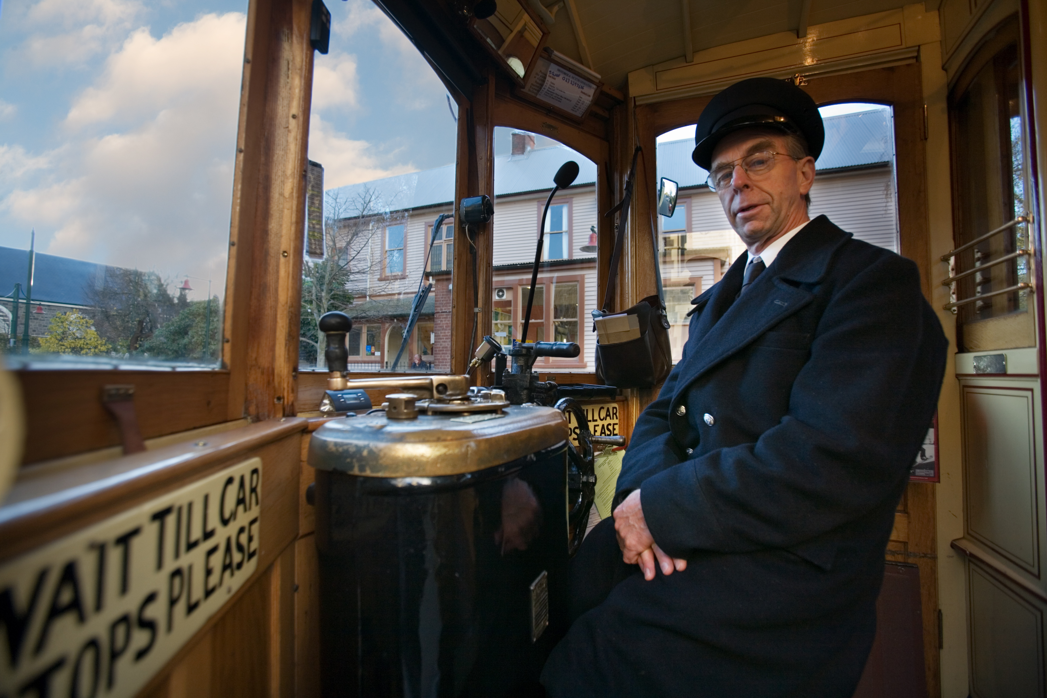 Tram driver. Christchurch. New Zealand, 2006